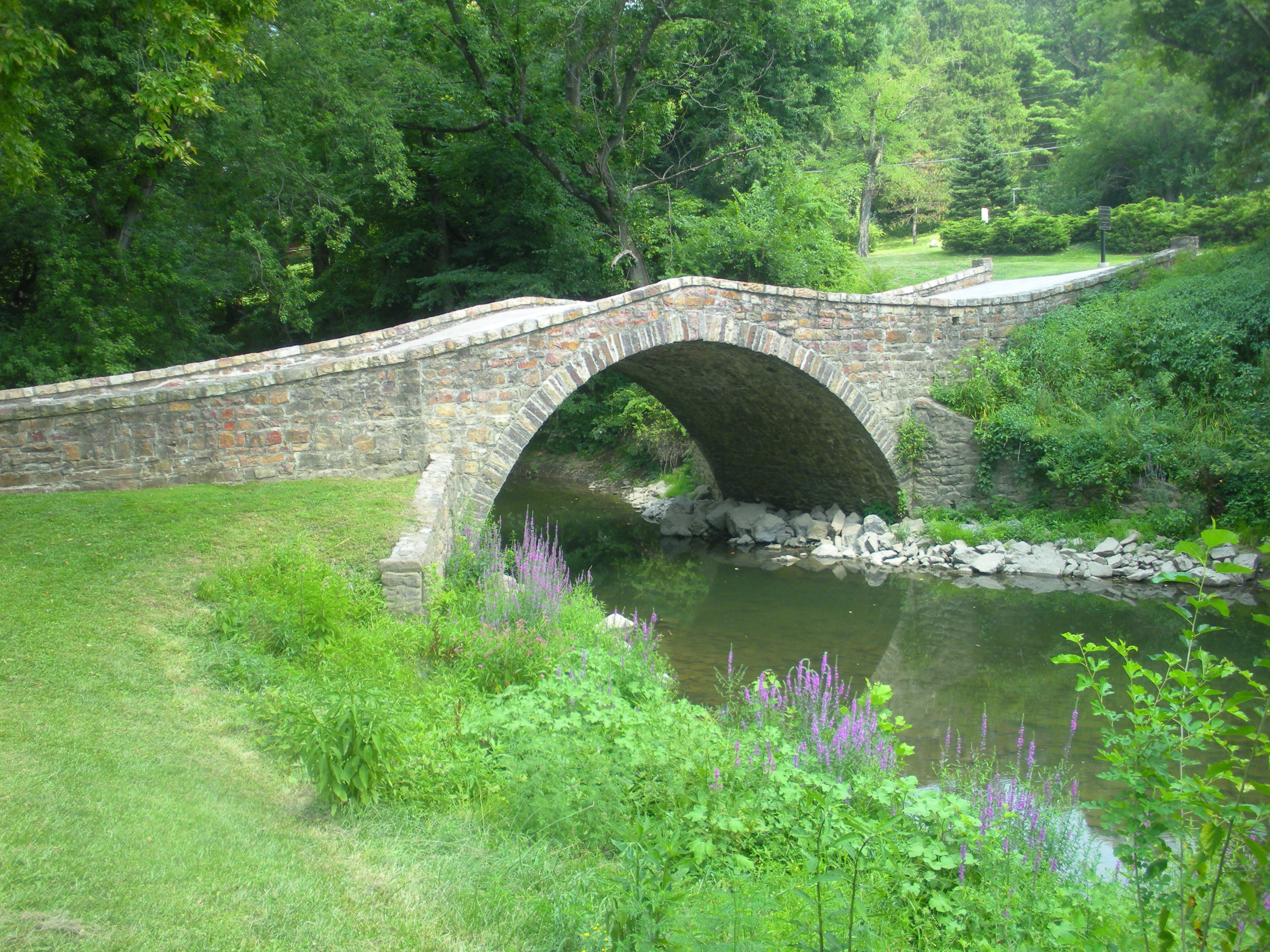 Old stone arch bridge of Harrisburg to Pittsburgh turnpike. Over Jacks Creek in Derry Township, Mifflin County, Pennsylvania, immediately east of Lewistown. Built 1813, restored 2006.